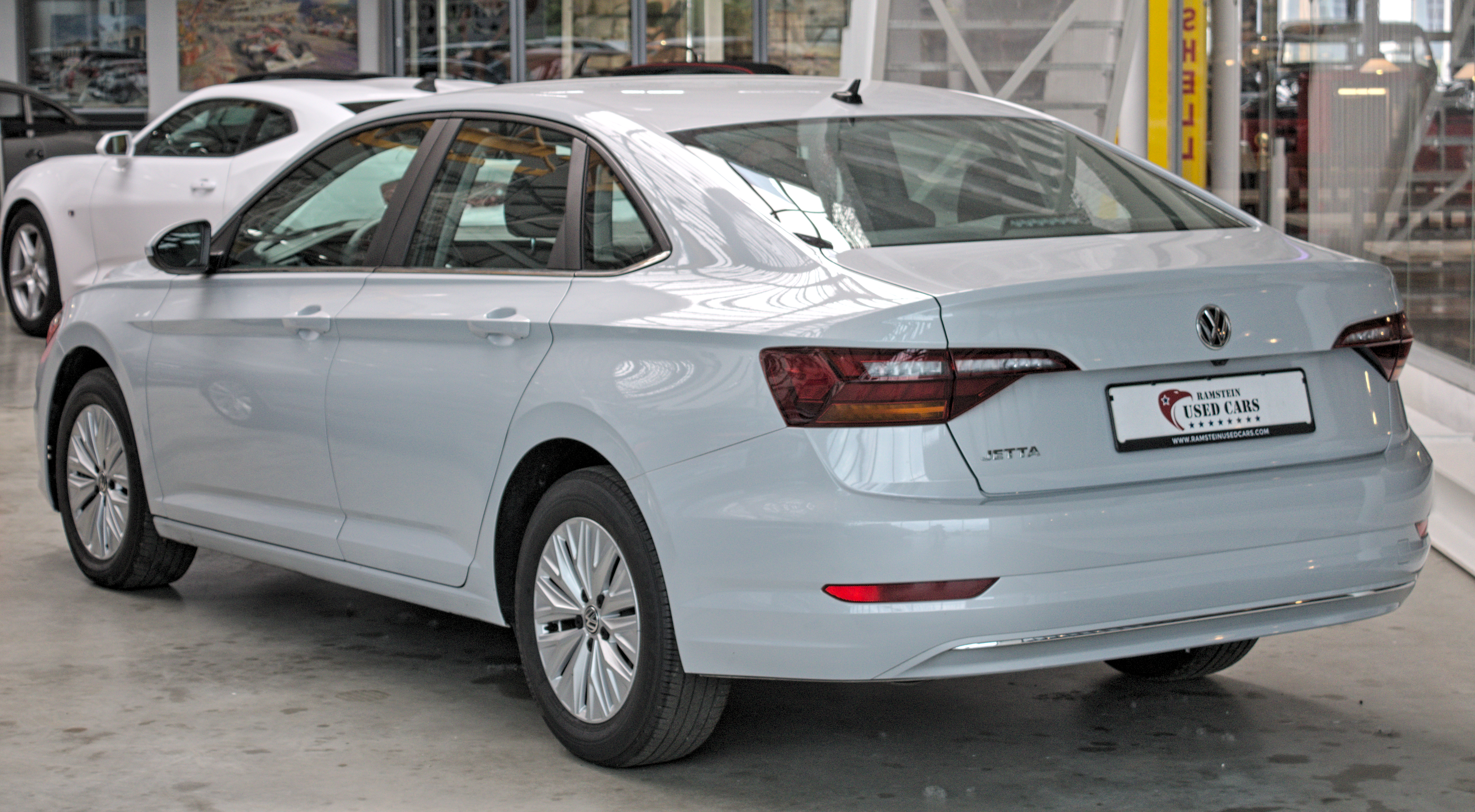 Volkswagen_Jetta_VII in Böblingen